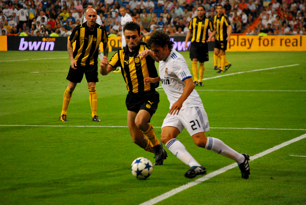 Emiliano Albín (Peñarol) trying to get the ball from Pedro León (Real Madrid).